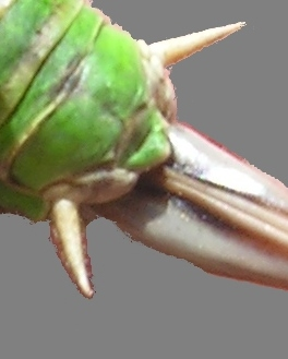 Cerci of female in family Tettigoniidae. Base of ovipositor visible between the cerci. To name this file GrassHopperCerci is misleading in English usage in entomology. It should be something like TettigoniidCerci or KatydidCerci instead.